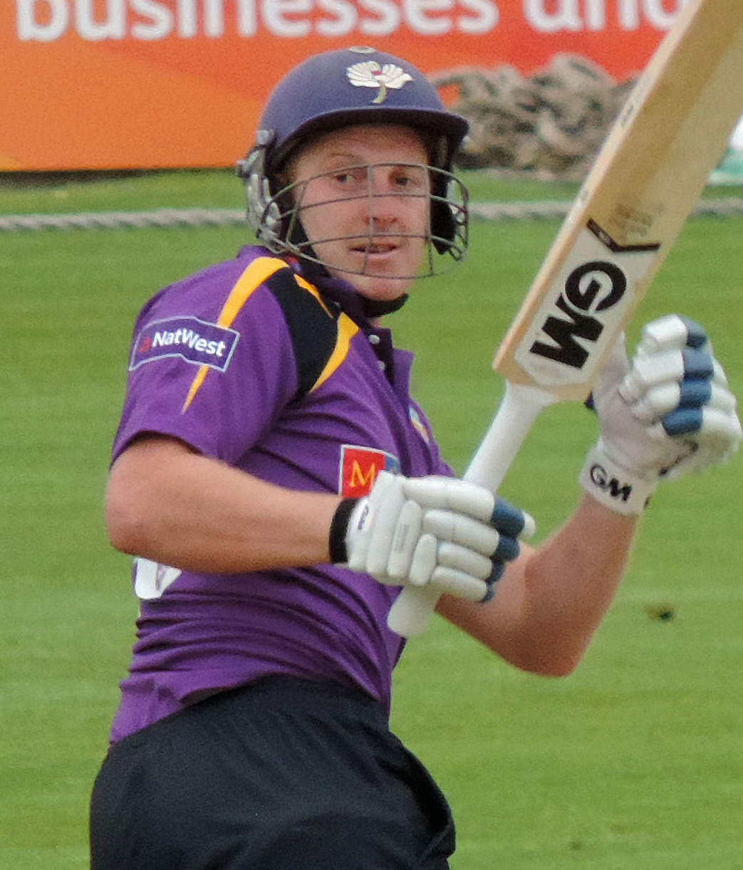 Some pictures from the Twenty20 match between Yorkshire and Derbyshire at Headingley last week; not a great result for me, with Derbyshire losing out by some distance. Yorkshire's captain, Andrew Gale.